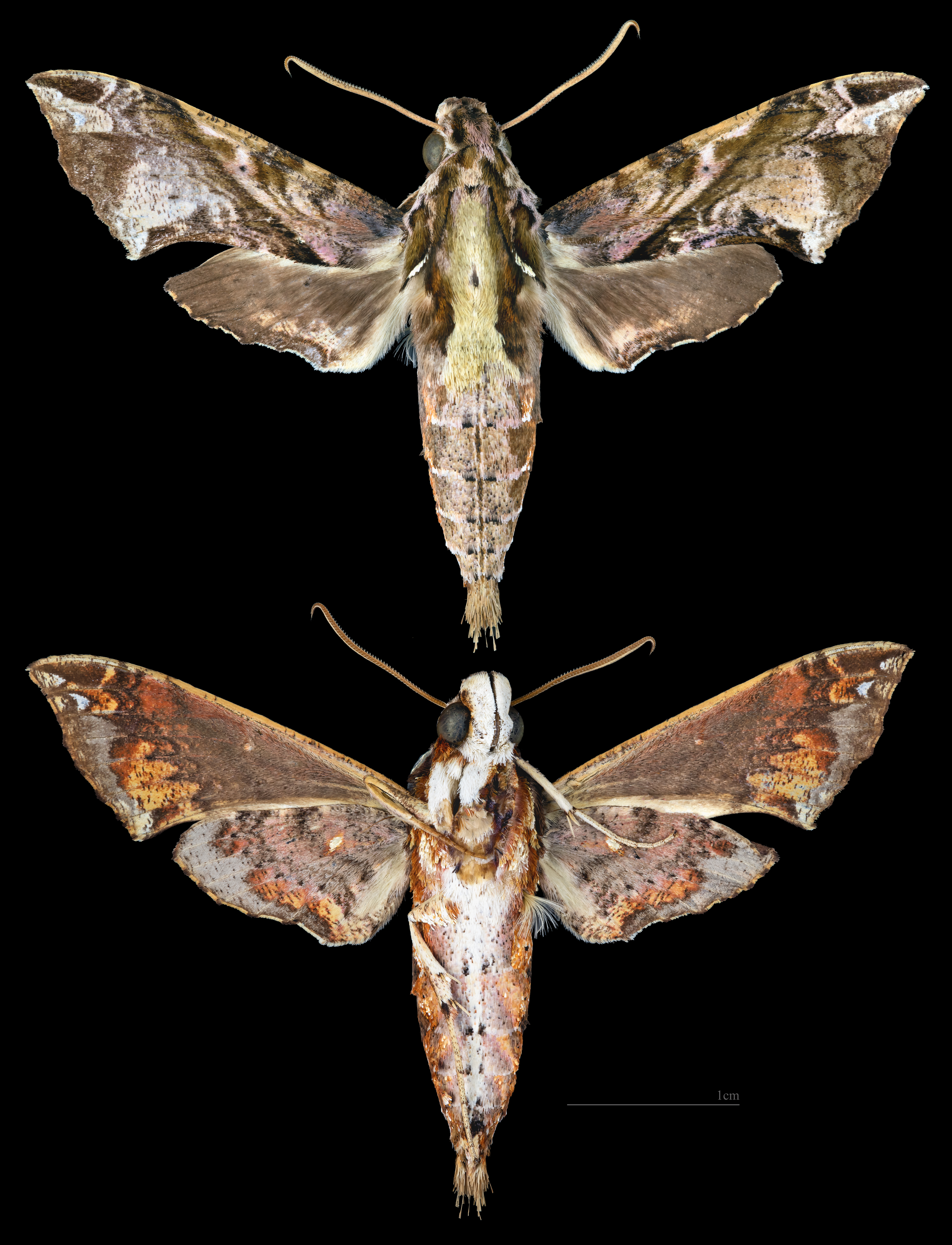 Eupanacra elegantulus - Two views of same specimen Collection of the Mathematician Laurent Schwartz